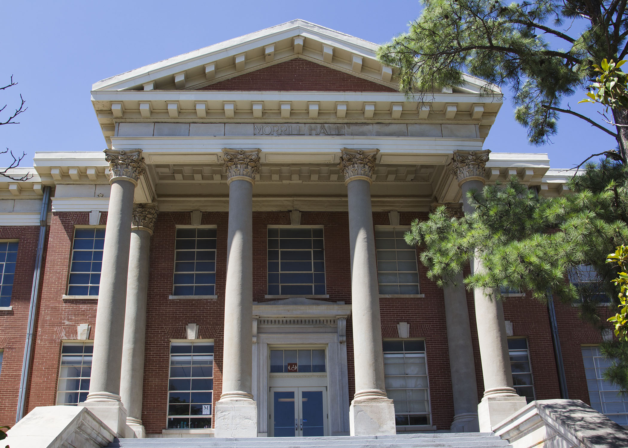 This is an image of the front/south side of Morrill Hall at Oklahoma State University.